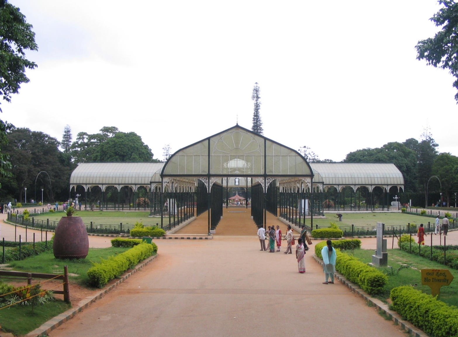 Glass house in Lalbagh, Bangalore, India